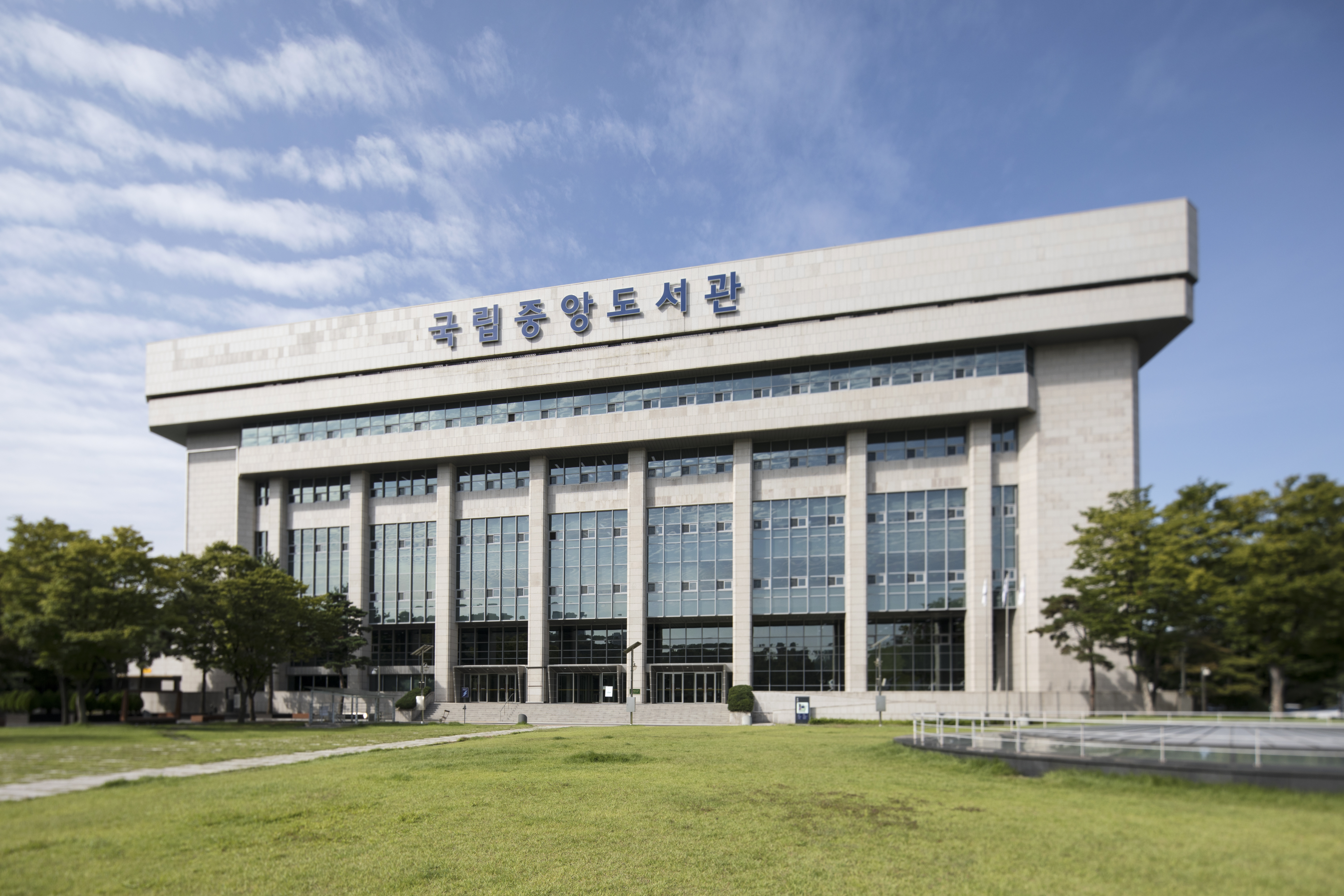 The front view of National Library of Korea